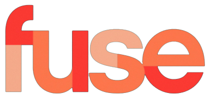 Logo of Fuse, an American TV channel.